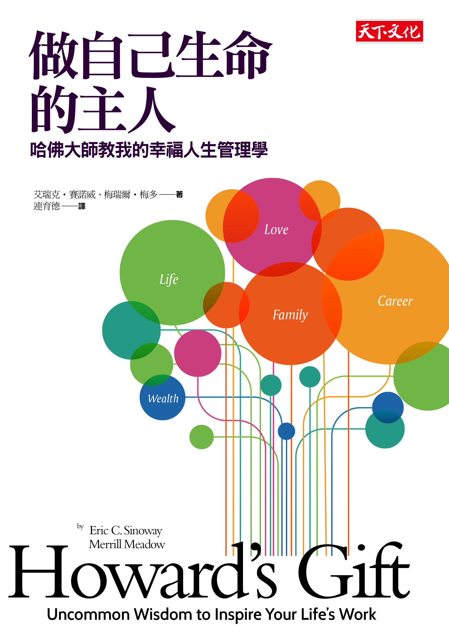 The Taiwanese translation of Eric Sinoway's book, Howard's Gift.